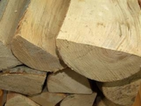 Firewood.